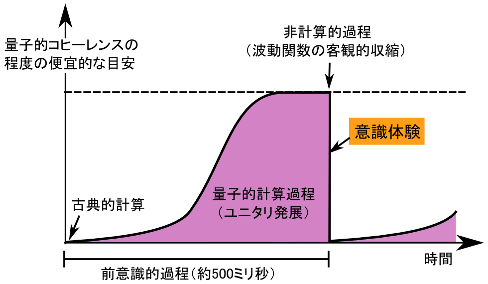 schematic diagram depict the possition of conscious experience(qualia) in Penrose and Hameroff's Orch-OR theory. In this theory, conscious experience arises when objective reduction of wave function occures. Characters in this diagram are Japanese.